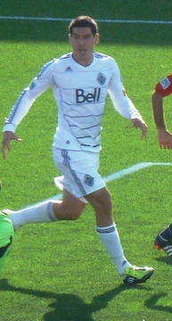 Michael Boxall playing for Vancouver Whitecaps against Chivas USA